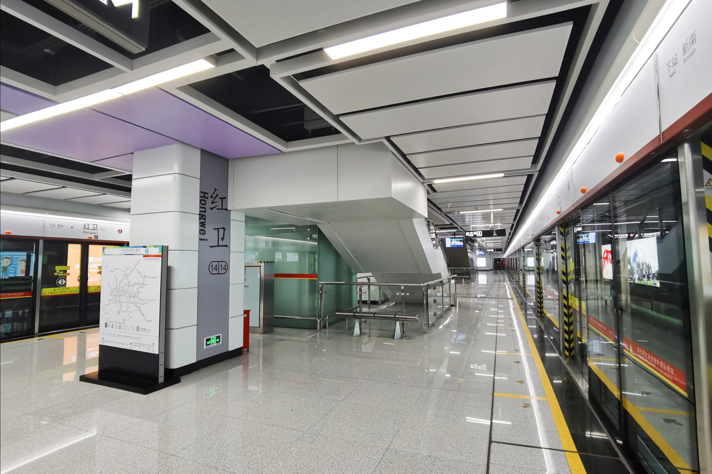 广州地铁红卫站